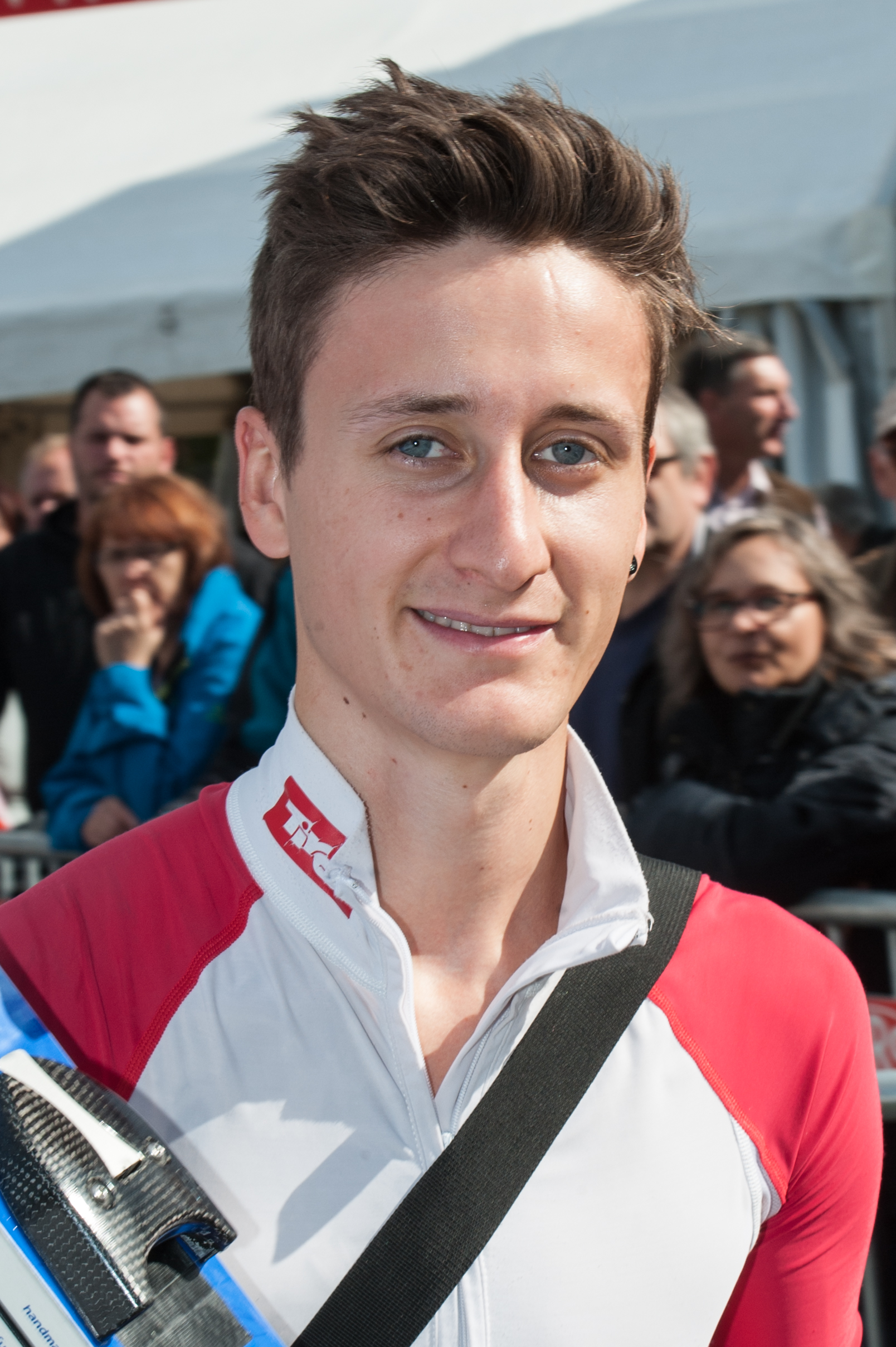 Fis Ski Jumping Summer Grand Prix in Hinzenbach, Upper Austria, 2015-09-27: Clemens Aigner